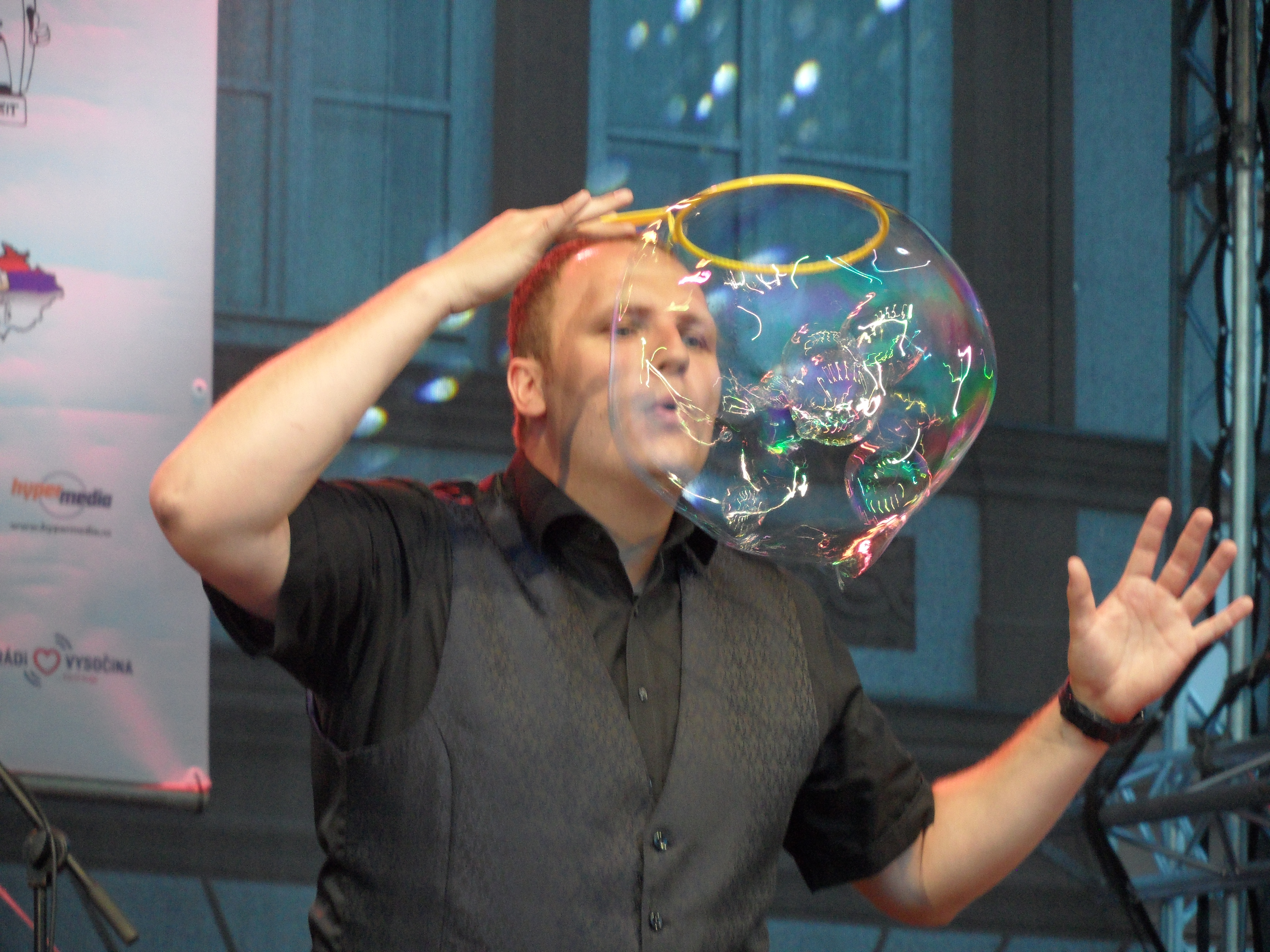 Festival Pelhřimov – the City of Records 2017, Evening Programme: Bubble Show of World Champion Matěj Kodeš. Pelhřimov District, the Czech Republic.